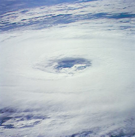 Hurricane Florence (1994) in the North Atlantic Ocean photographed by the STS-66 mission of Space Shuttle Atlantis, at 22:12 GMT on November 7, 1994.